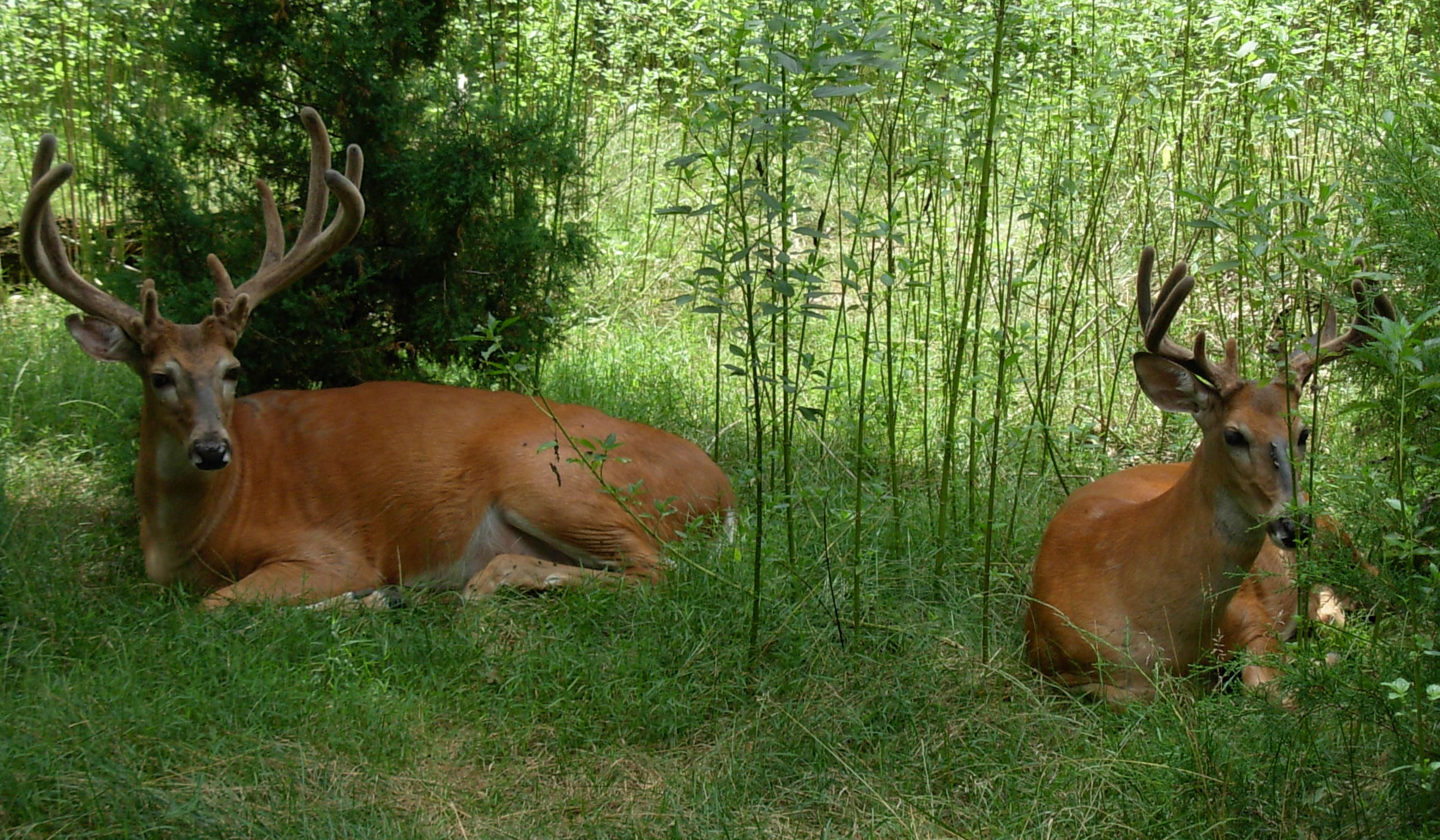 Antlered white-tailed deer (Odocoileus virginianus) kept in a public park enclosure in Winona, Minnesota